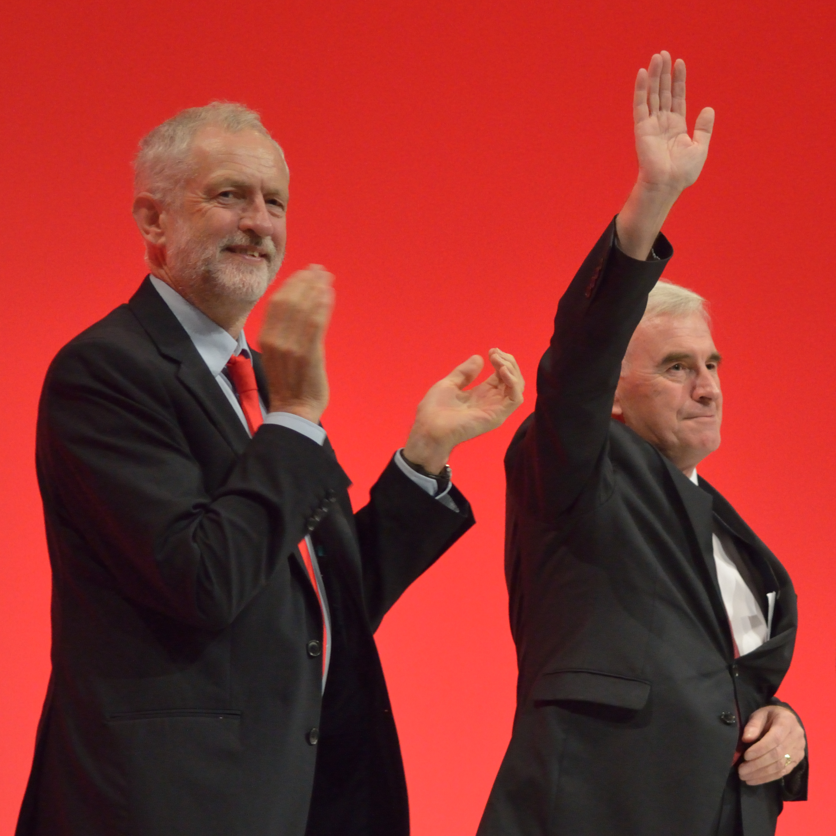 Jeremy Corbyn and John McDonnell, after McDonnell gave his Shadow Chancellor of the Exchequer speech, at the 2016 Labour Party Conference in Liverpool.